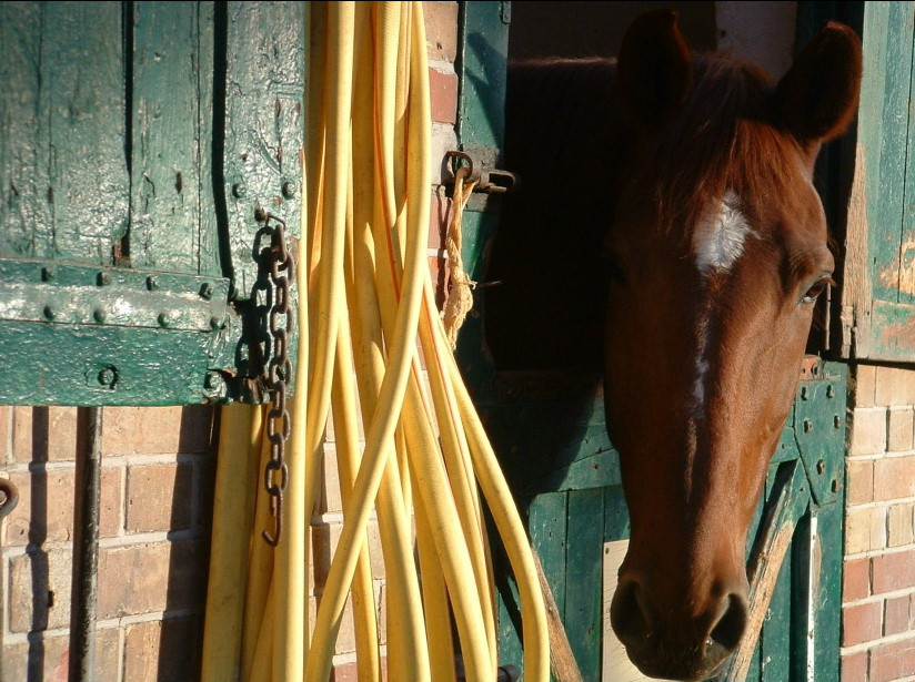 Head of a selle français mare, Val de Marne, France